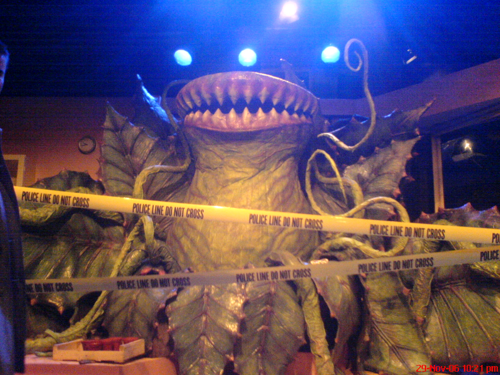 Audrey II puppet from the Mernier Chocolate Factory